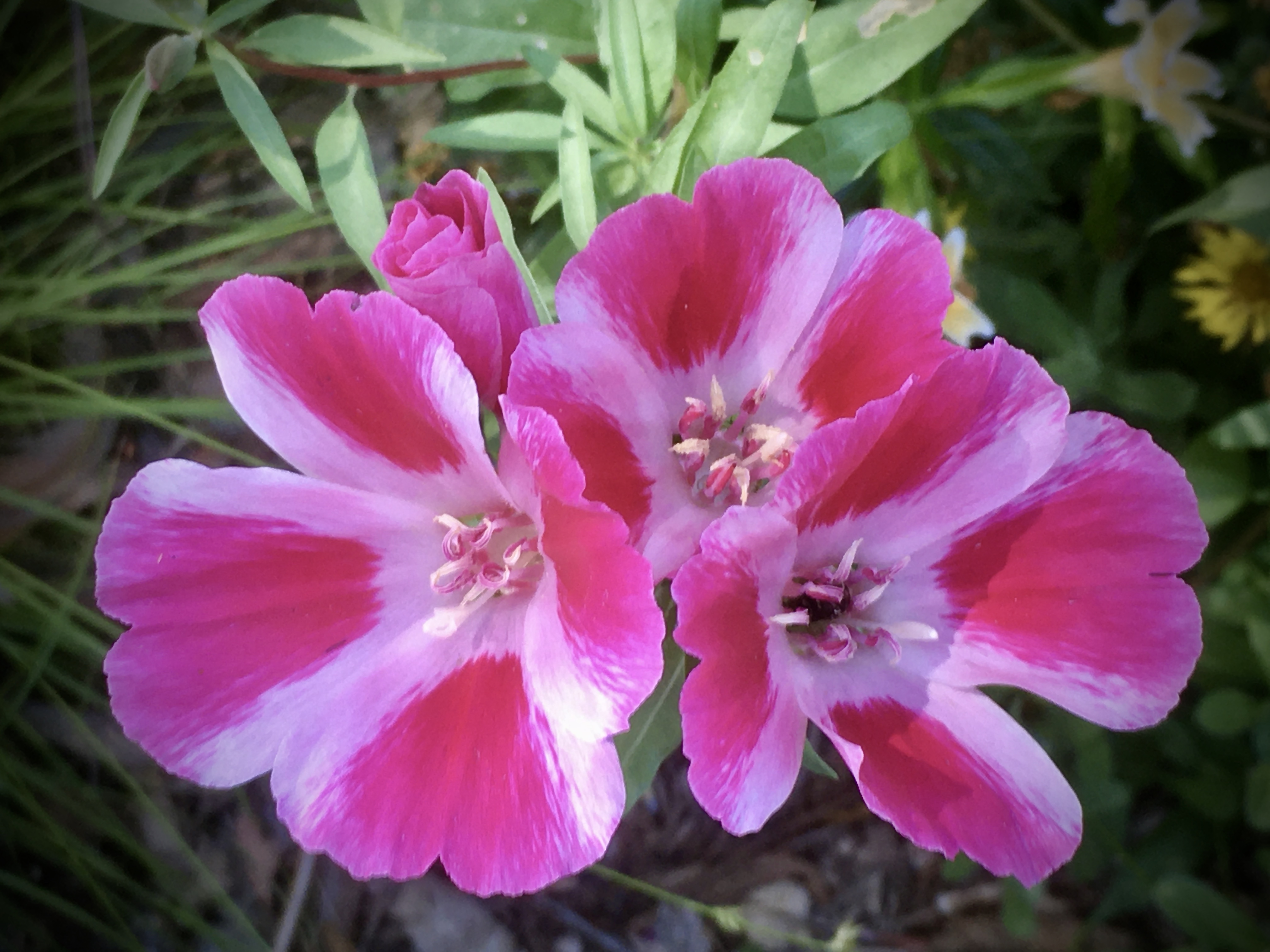 In the Native Plants garden in the Gamble Garden, Palo Alto. If there was a label, I couldn't find it. Perhaps some Clarkia fan will enlighten me? Seems to be Clarkia amoena